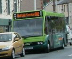 Thomas of Rhondda bus, an Optare Solo midibus, pictured in Maerdy, Rhondda Cynon Taf. It wears the special green branding for the network of rail feeder buses, for which Thomas operates the 902 route, linking Maerdy with Ystrad Rhondda railway station.